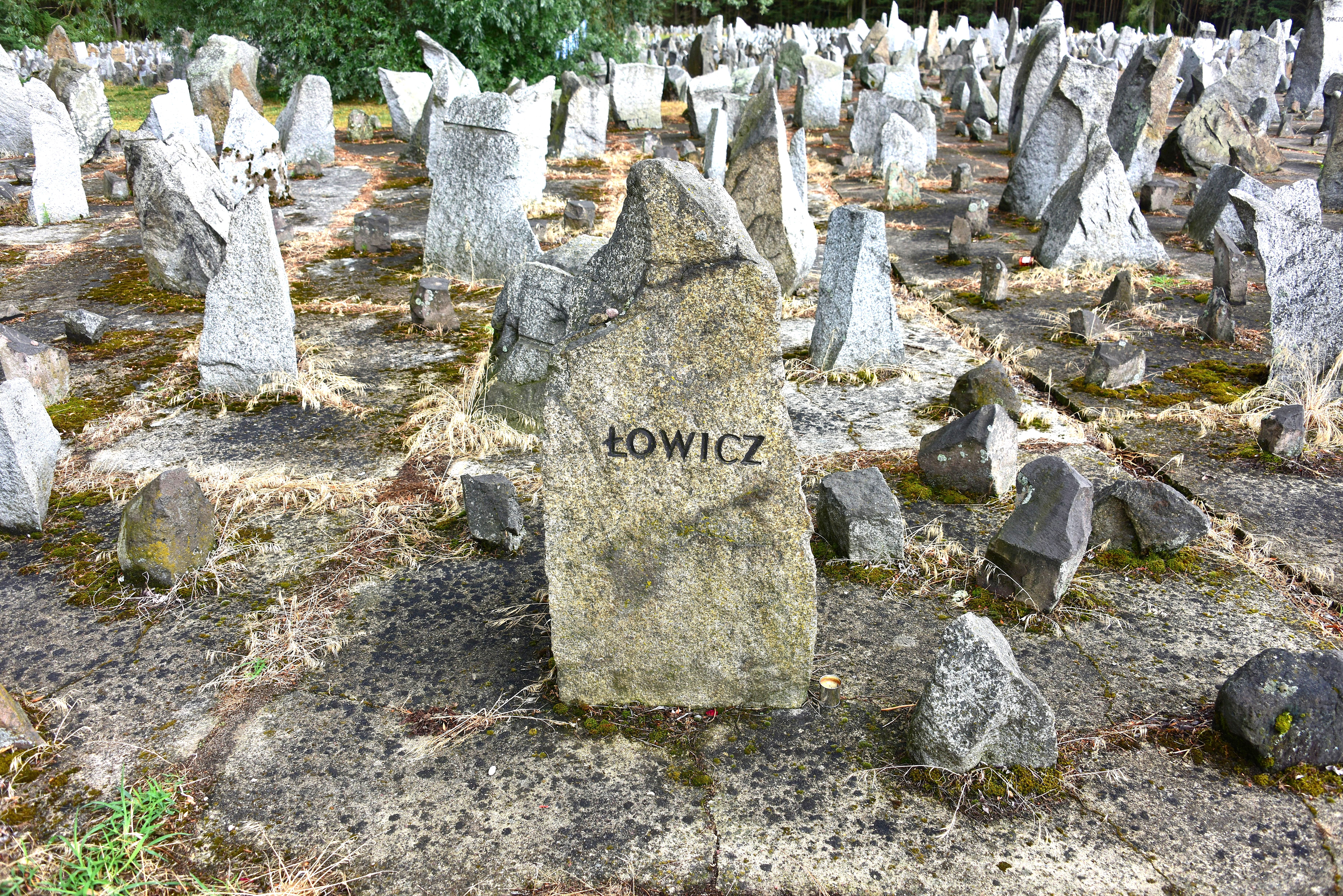 Treblinka death camp memorial. A stone commemorating the murdered Jews from Łowicz